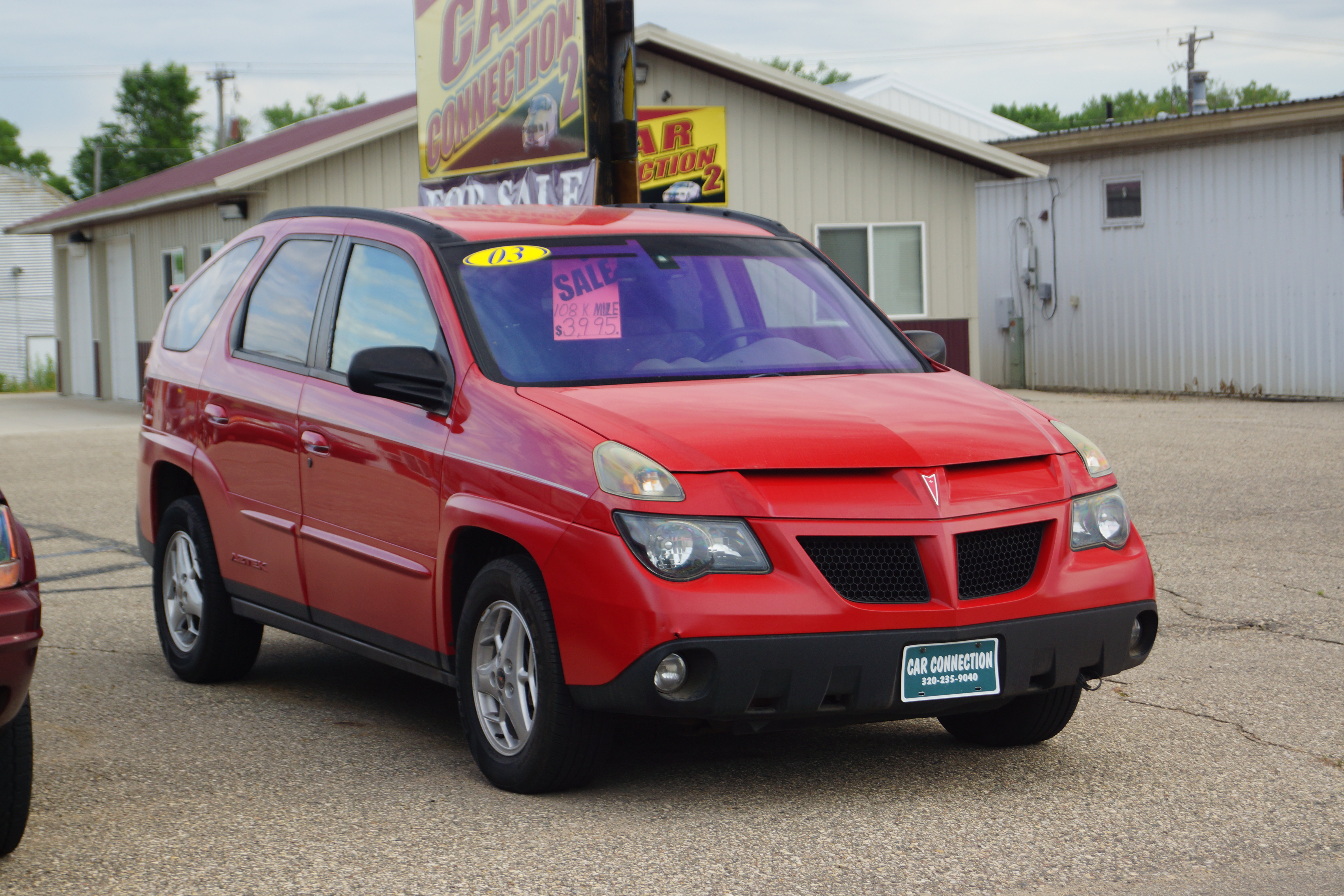 Click here for previous Hastings Cruise Night pictures.. Click here for more car pictures at my Flickr site. Or here for my Car Crazy Tumblr site. Or on Twitter @DVS1mn.